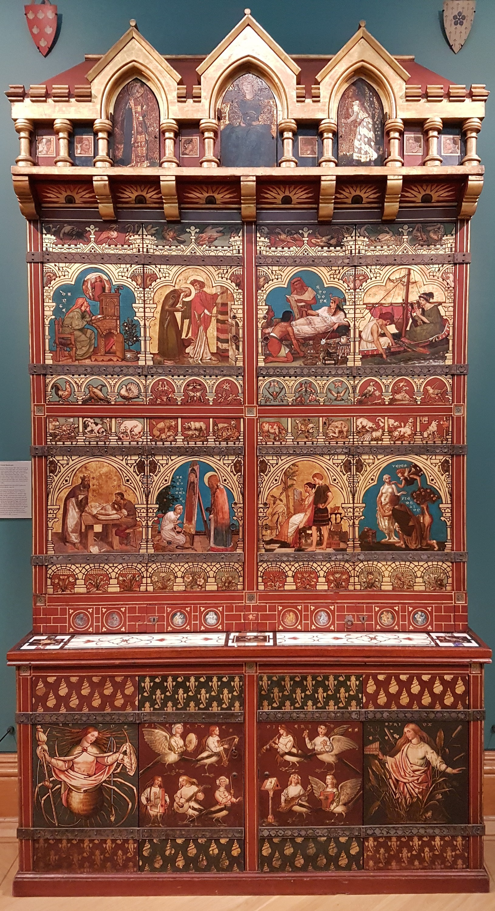 Ornate bookcase, with mythological and religious representations. Designed by William Burges (1827-1881) and painted between 1859 and 1862 by: Edward Burne Jones (1833-1898) John Anster Fitzgerald (1819-1906) Henry Holiday (1839-1927) Stacy Marks (1829-1898) Albert Moore (1841-1893) Thomas Morten (1836-1866) Edward Poynter (1836-1919) Charles Rossiter (1827-1897) Frederick Smallfield (1825-1915) Simeon Solomon (1840-1905) Frederick Weekes (1833-1920) Nathaniel Westlake (1833-1921) William Frederick Yeames (1835-1918) Dante Gabriel Rossetti (1828-1882)